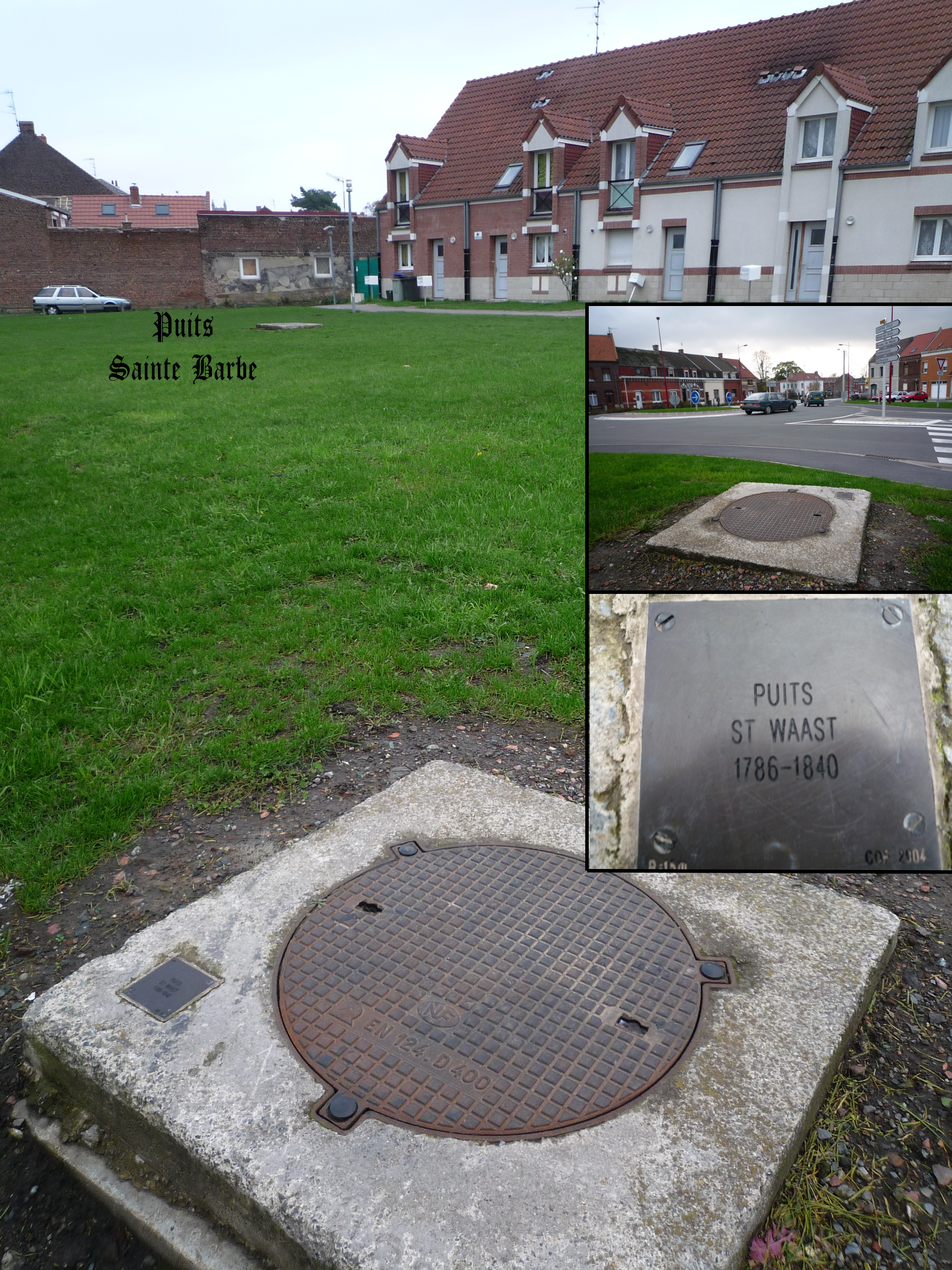 Pit of the Compagnie des mines d'Aniche, France.